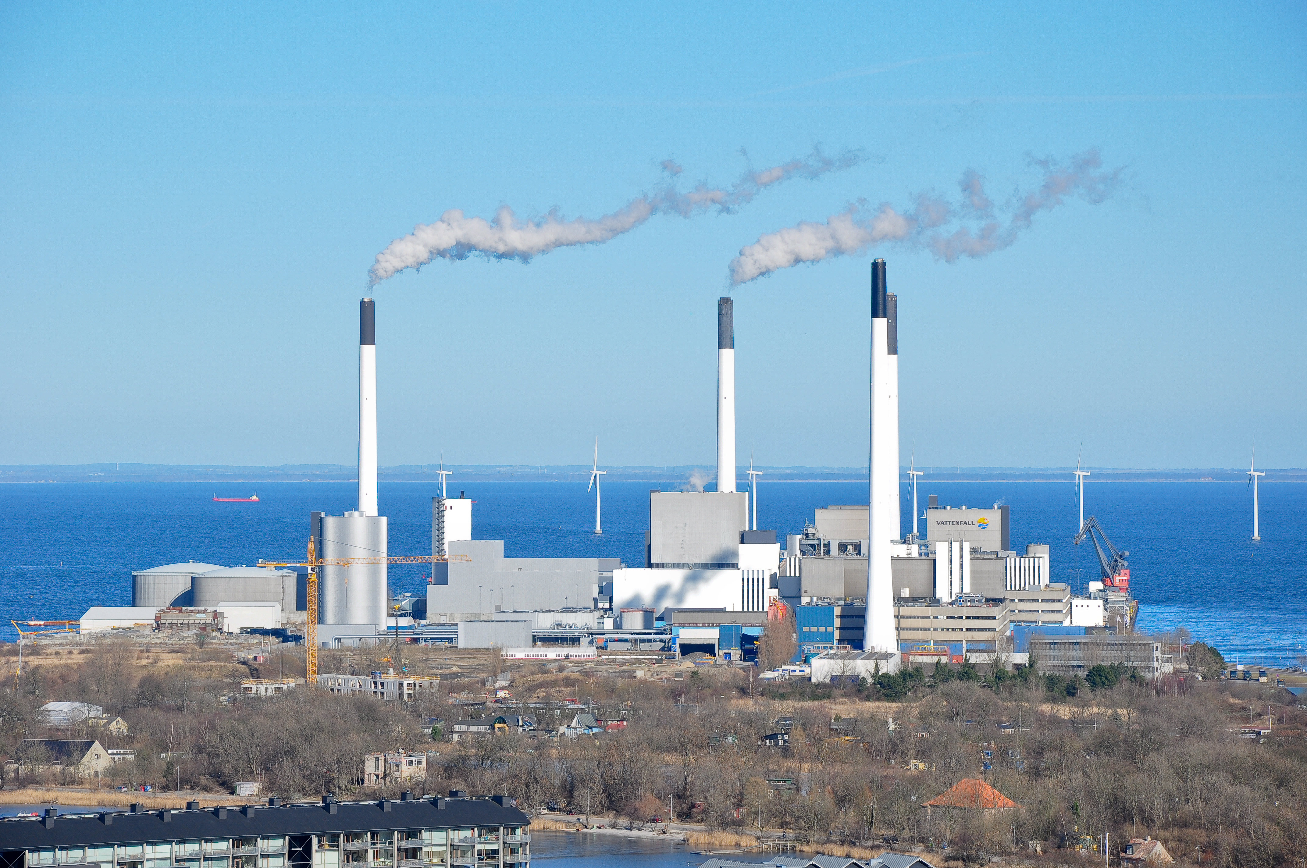 The power plant Amagerværket in Copenhagen